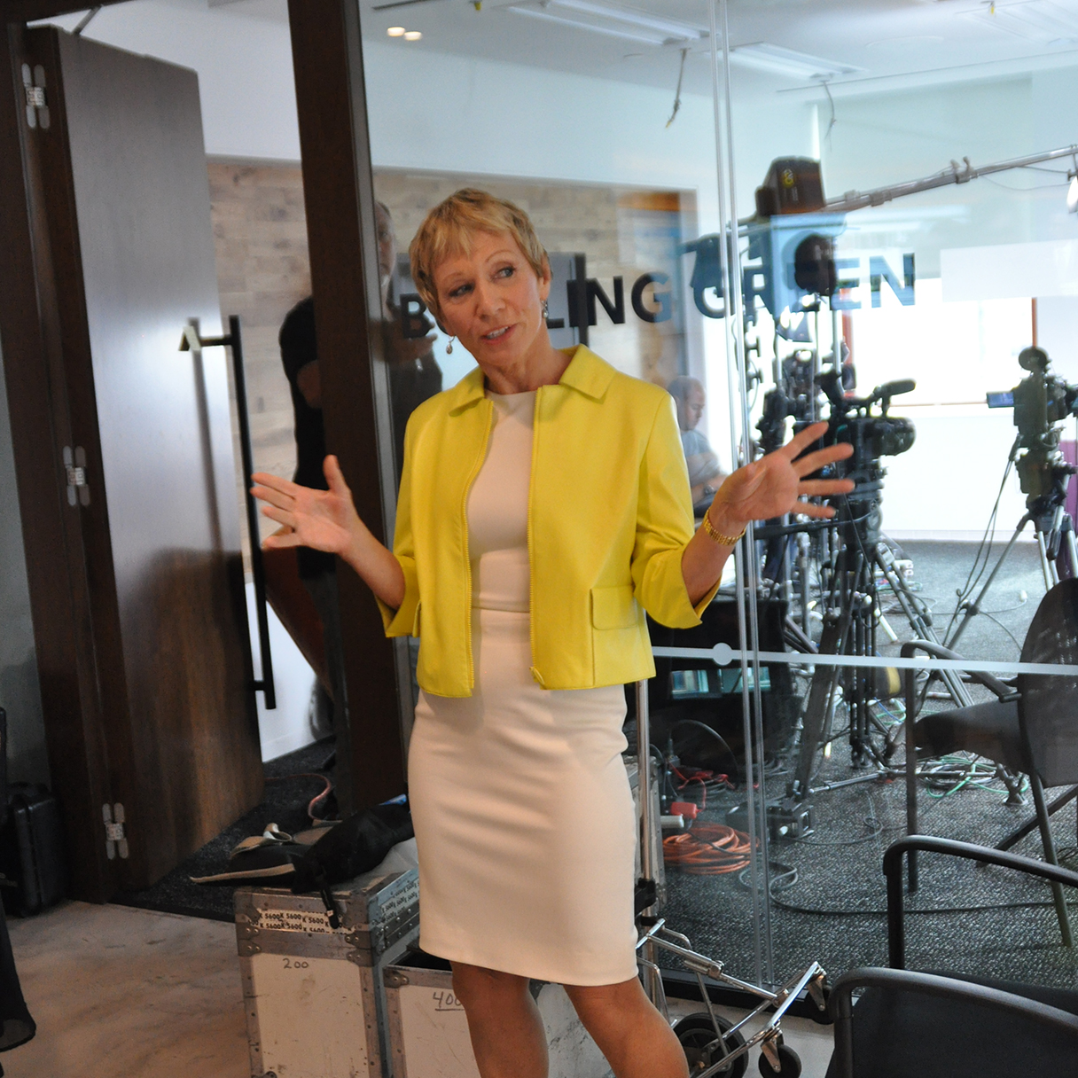 Barbara Corcoran at a LinkedIn event